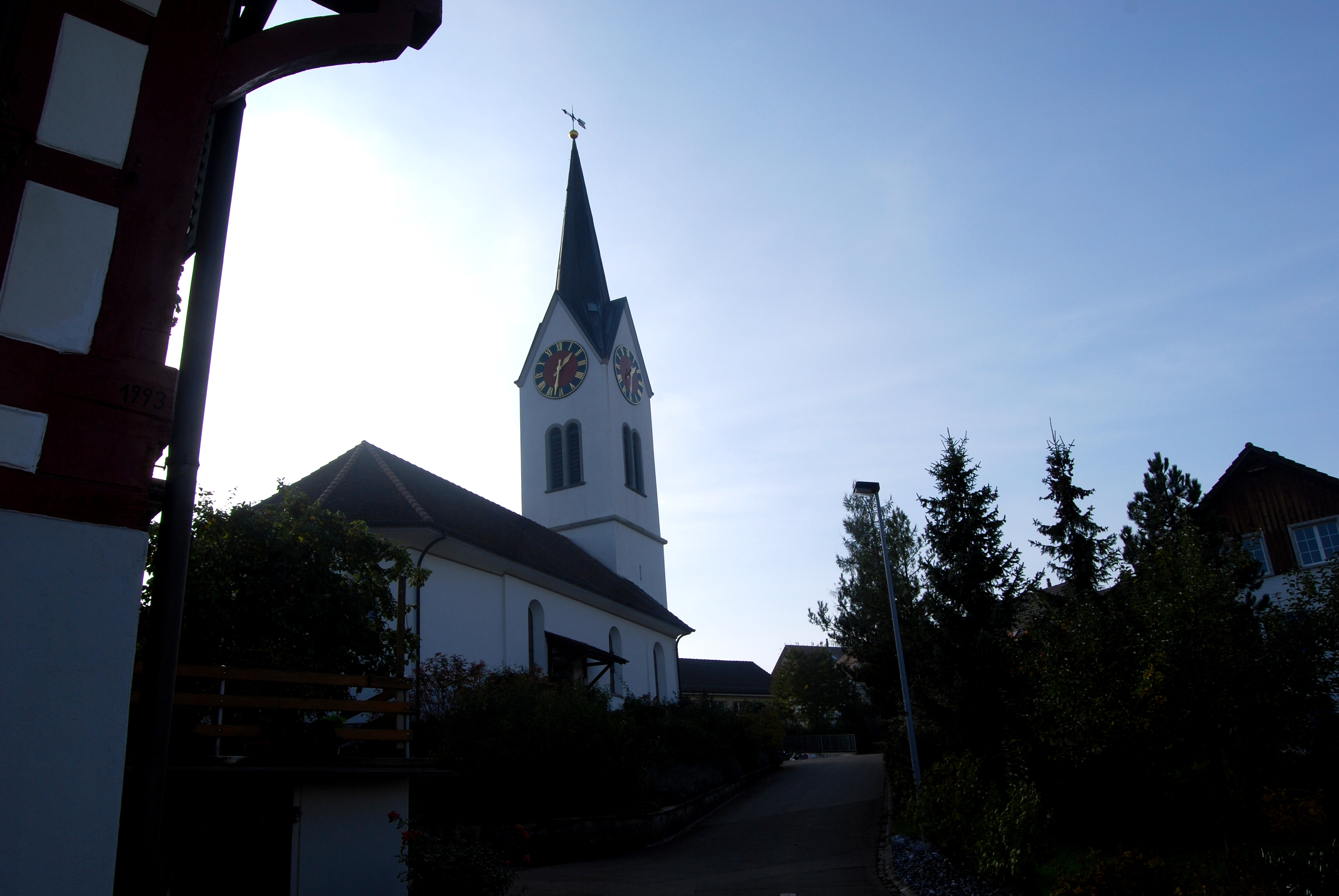 Church of Altikon, canton of Zürich, SwitzerlandEsperanto: Preĝejo de Altikon, Kantono Zuriko, Svislando